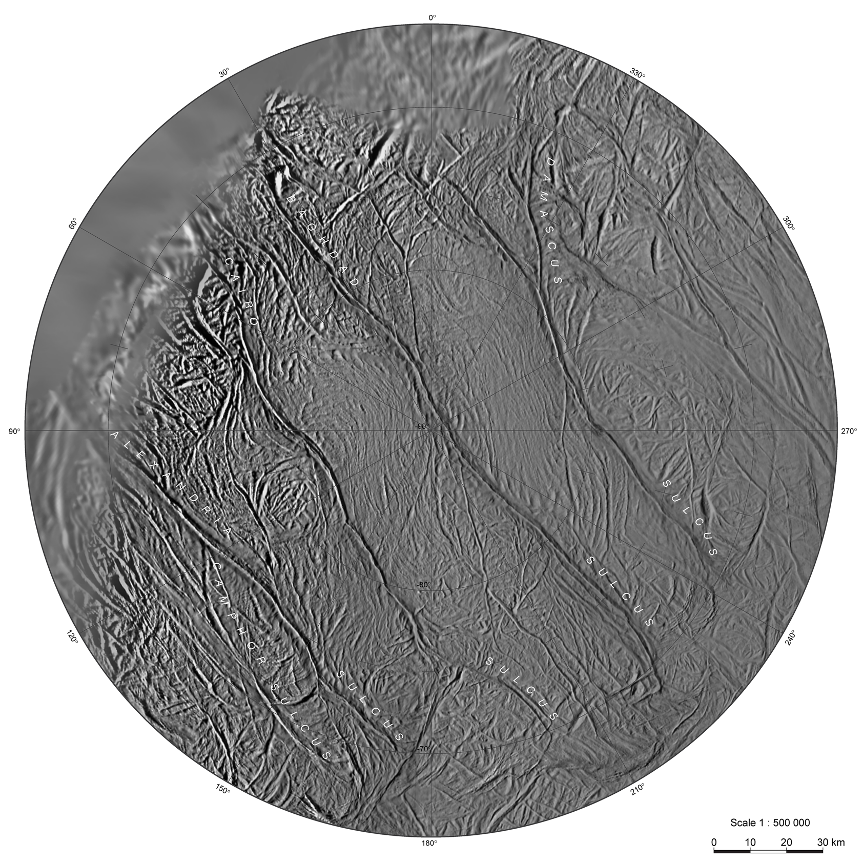 Composite map of south pole of Saturnian moon Enceladus.